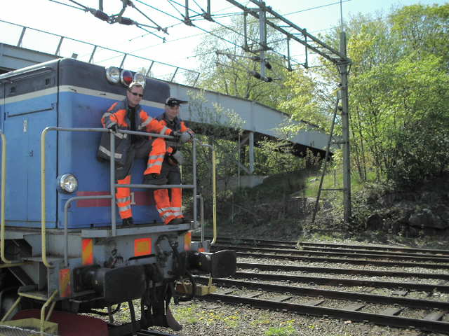 Remote control of a Swedish T44 dieselelectric locomotive. "Driver" at right